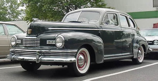 1946 Ambassador "Slipstream" four-door sedan by Nash Motors. The 1947 model differed from the 1946 model in having longer bars in the radiator grille. This body shape was introduced in 1942. Photographed at the AMCRC (AMC Rambler Club) car show that was held in Somerset, New Jersey. August 8 and 9, 2003.